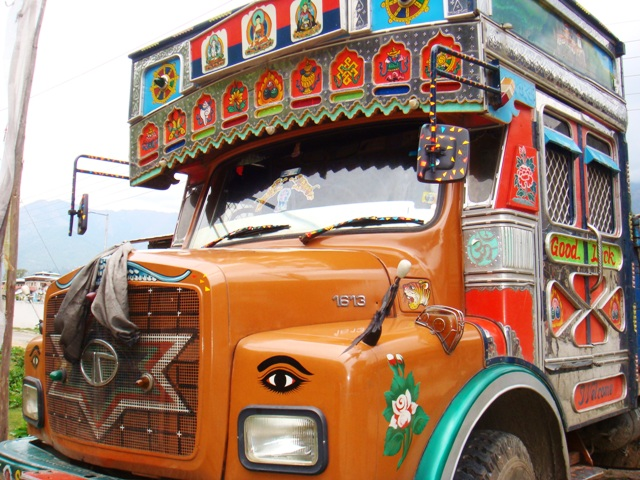 A decorated Tata Truck; medium truck 1613